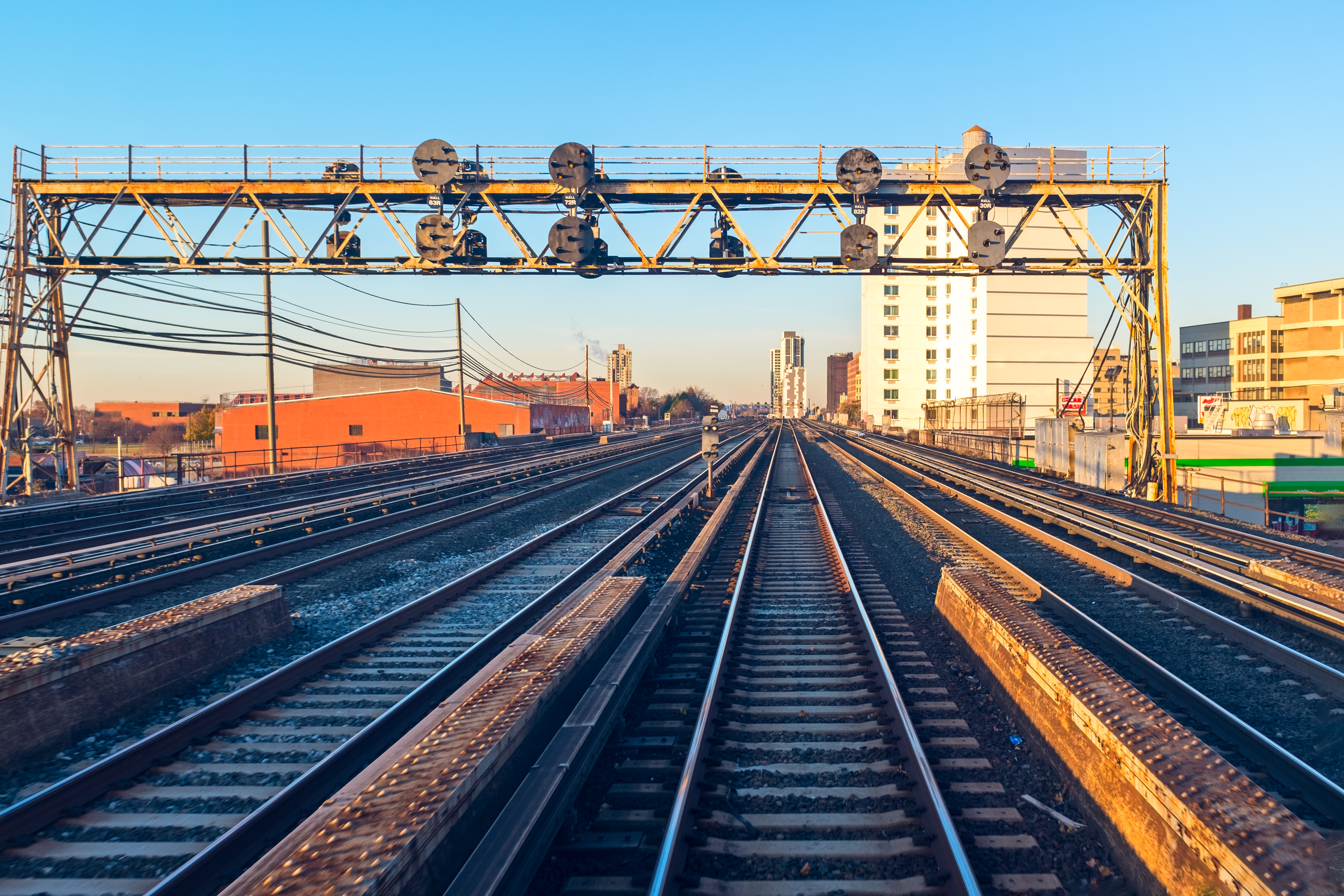 Approaching Jamaica station from the East on the LIRR. Position light signals on the gantry demonstrate the LIRR's former PRR heritage